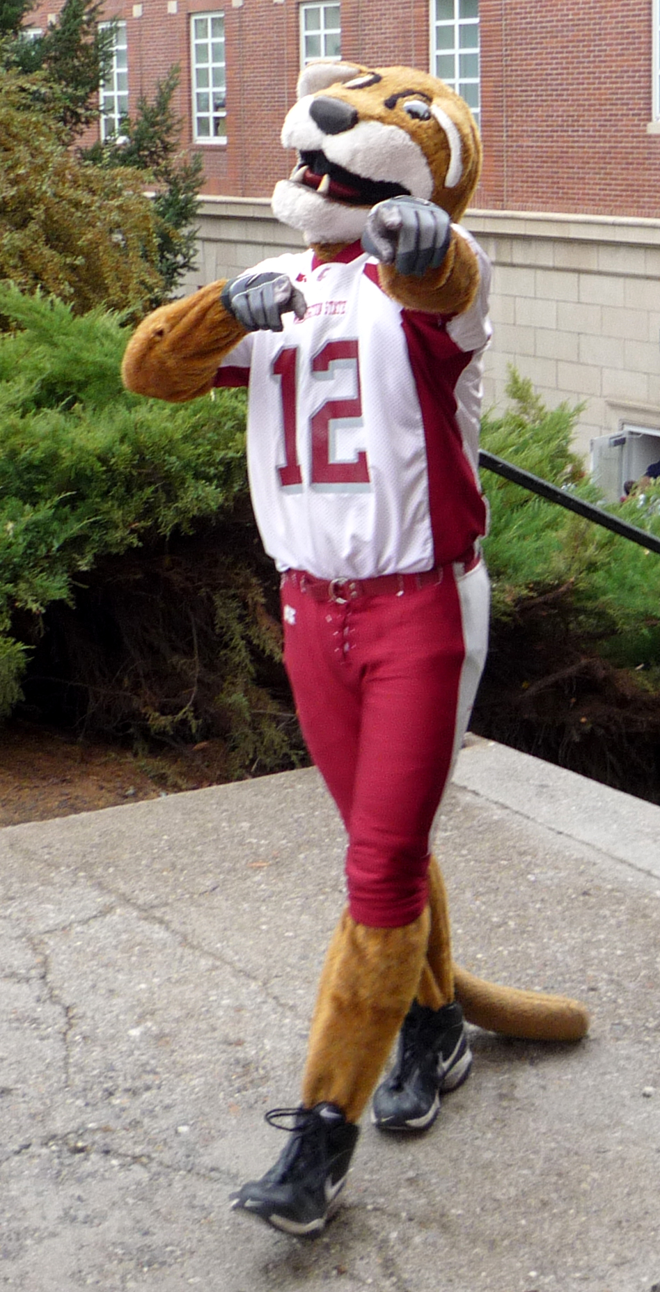 Butch T. Cougar, mascot of Washington State University.